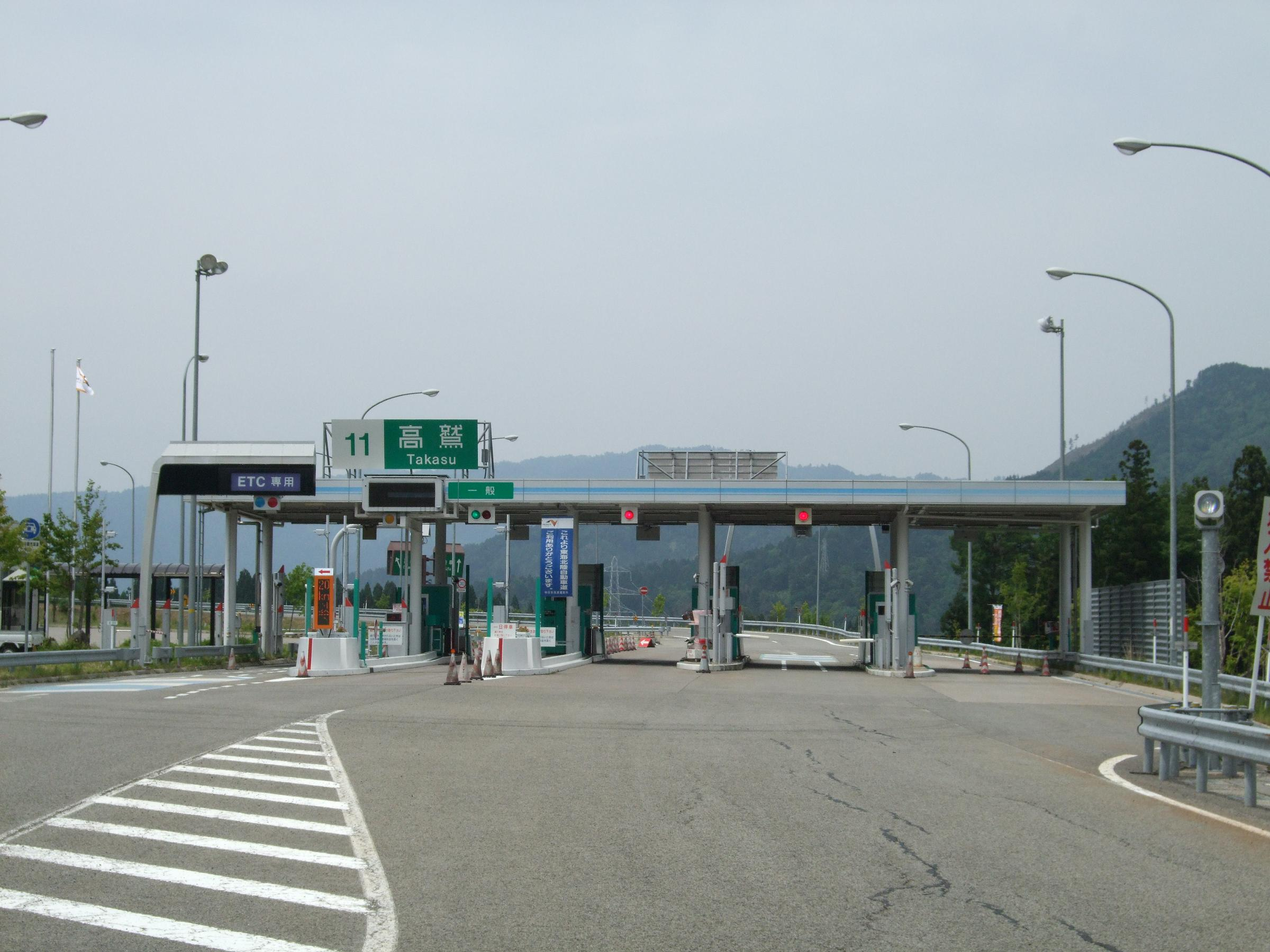 Toll gates at Takasu Interchange on the Tokai-Hokuriku Expressway